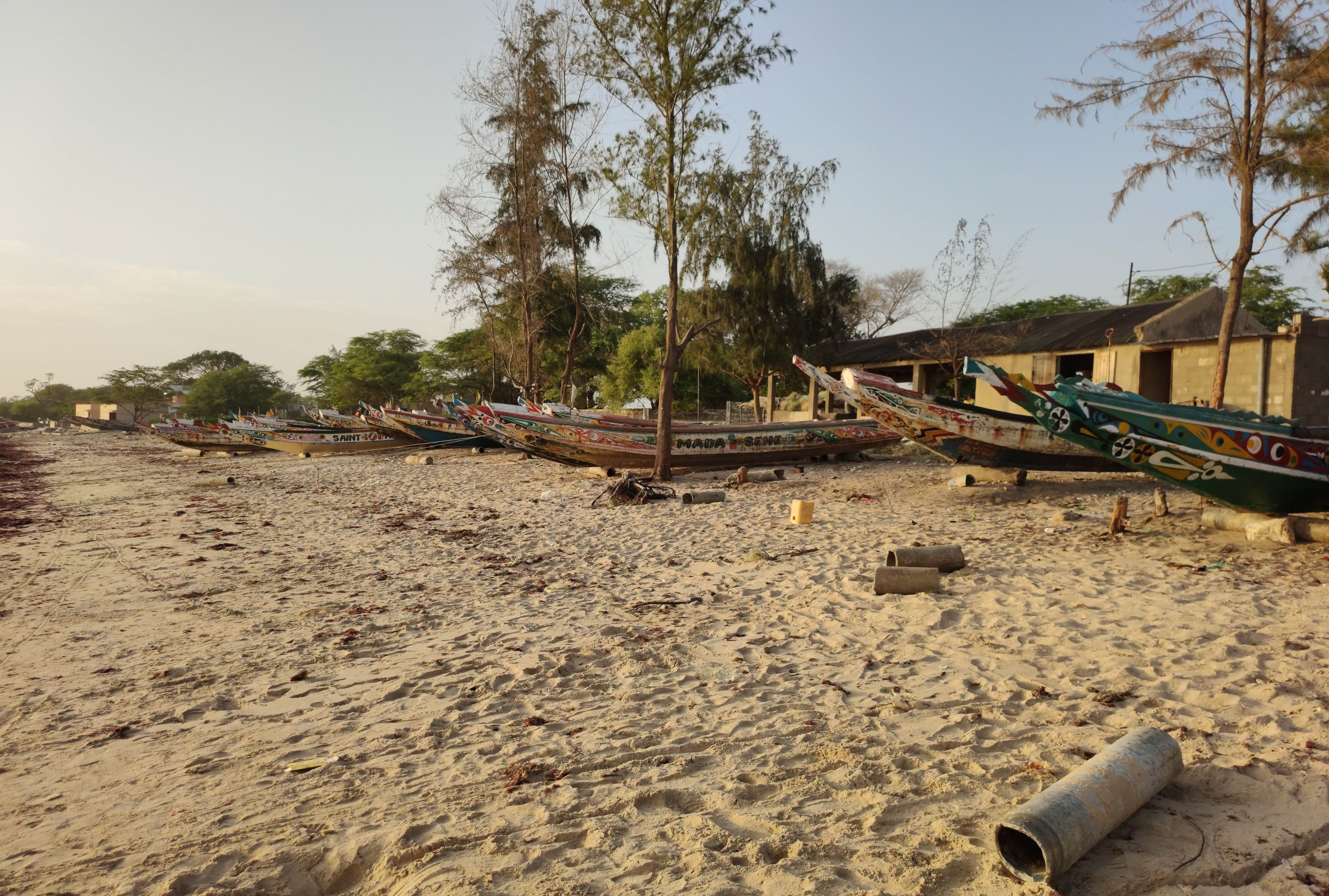 This is an image with the theme "Africa on the Move or Transport" from: Senegal